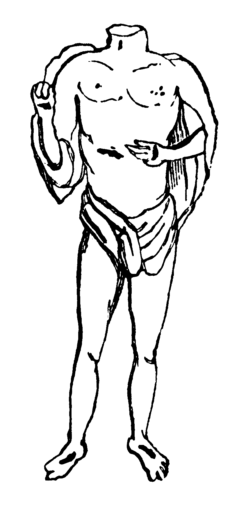 Drawing of the headless statue of Little St Hugh at Lincoln Cathedral, by Smart Lethieullier. The headless statue was originally made in the 13th century, and held at the niche at the head of the shrine in the south choir aisle of Lincoln Cathedral.